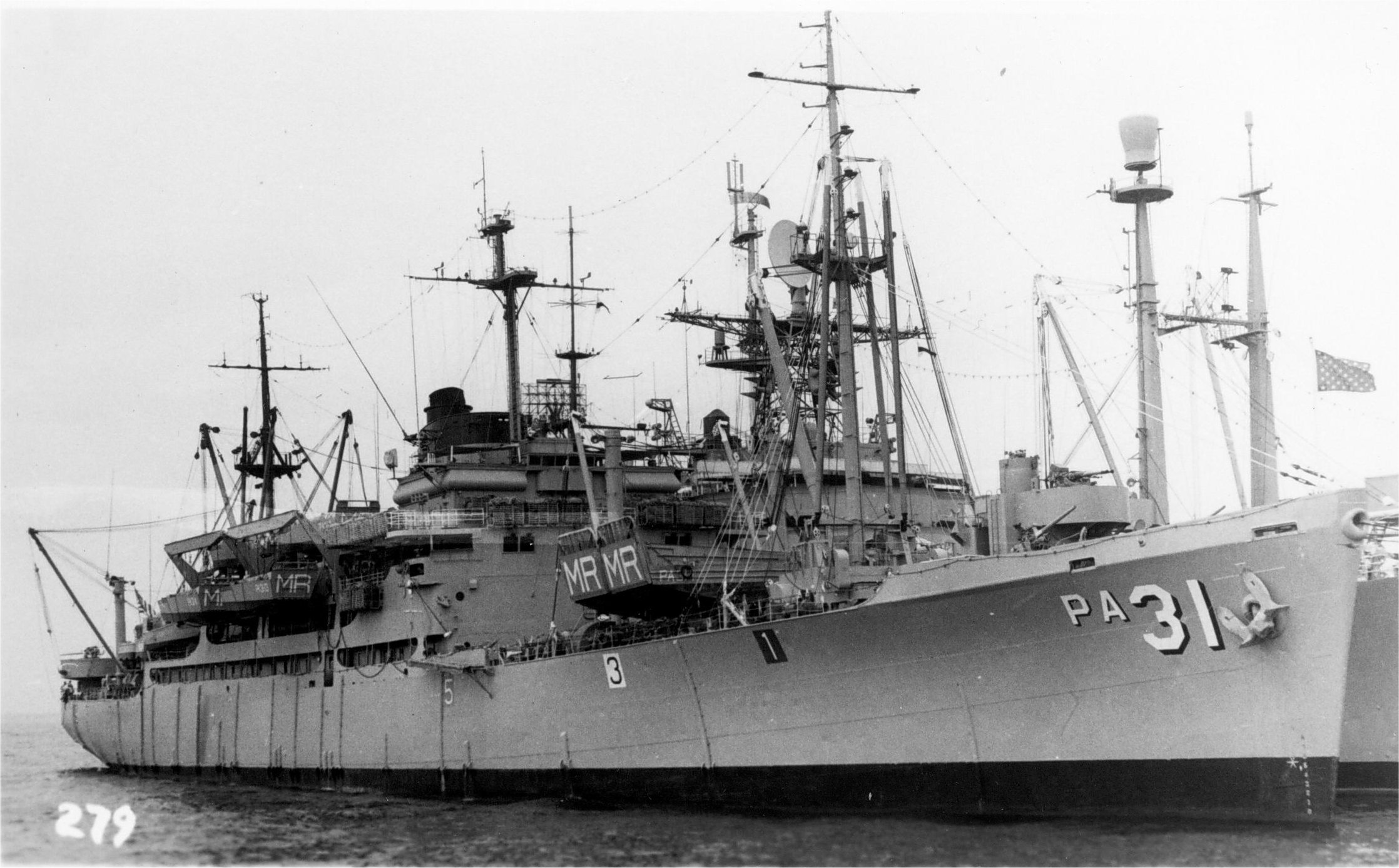 The U.S. Navy amphibious transport USS Monrovia (APA-31) moored outboard of an Adirondack-class amphibious command ship, in the 1960s.